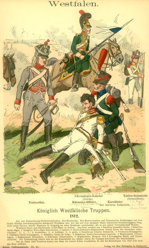 Westfalen. Königlich westfälische Truppen. 1812